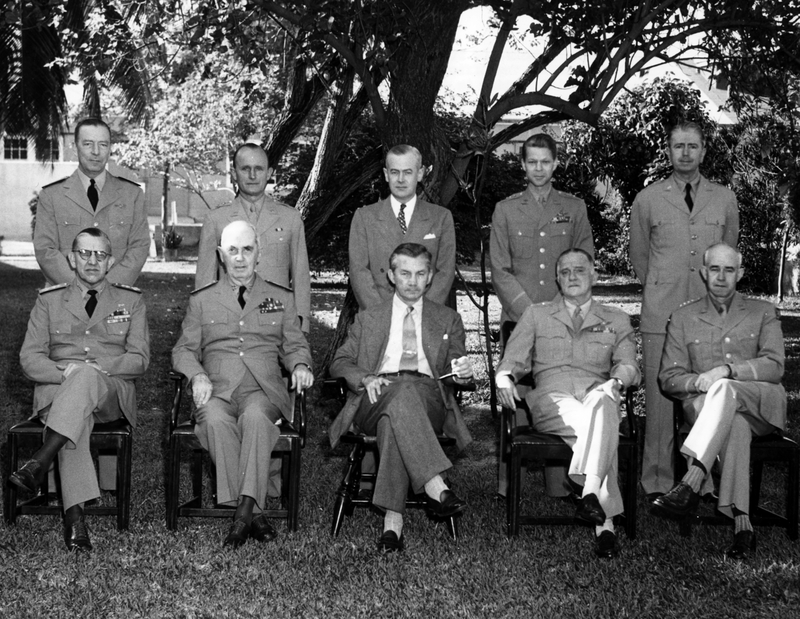 Top officials of the National Military Establishment meet with Forrestal. Top officials of the National Military Establishment attend a special meeting to discuss military problems with Secretary of Defense James Forrestal at the Naval Base in Key West, Florida. From left to right, front row, are Admiral Louis E. Denfeld, United States Navy, Chief of Naval Operations; Fleet Admiral William D. Leahy, United States Navy, Chief of Staff to the President; Secretary of Defense James Forrestal; General Carl Spaatz, USAAF, Chief of Staff, Air Force; and General Omar N. Bradley, Chief of Staff, U. S. Army. From left to right, back row, are: Vice Admiral Arthur W. Radford, USN, Vice Chief of Naval Operations; Major General Alfred M. Gruenther, USA, Director, Joint Staff; W. J. McNeil, Special Assistant to the Secretary of Defense; Lieutenant General Lauris Norstad, USAF, Deputy Chief of Staff for Operations, Air Force; and Lieutenant General Albert C. Wedemeyer, USA, Director of Plans and Operations, Army General Staff.